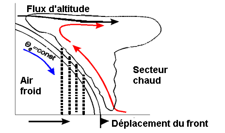 Anabatic cold front diagram showing air movement, clouds formation and position of the precipitation.